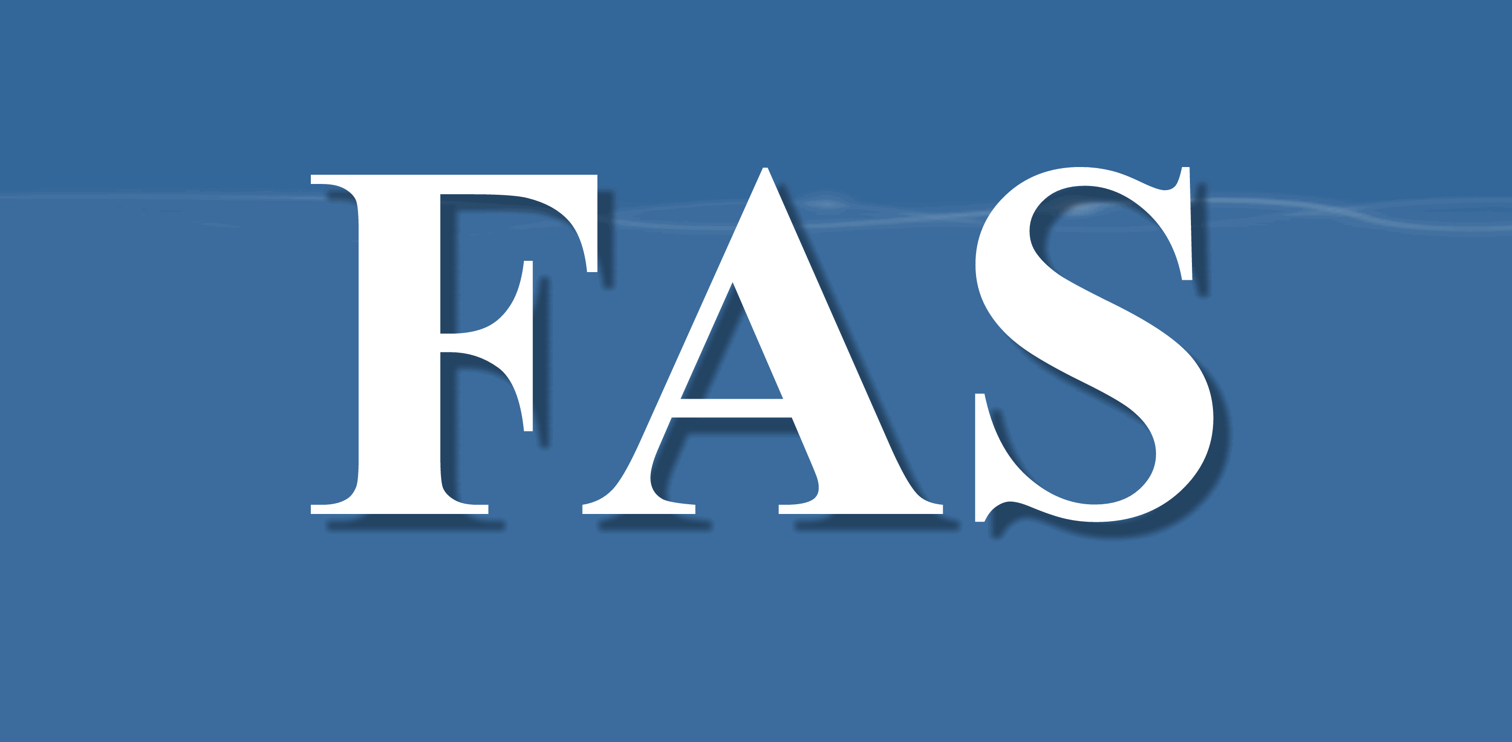 Federation of American Scientists logo